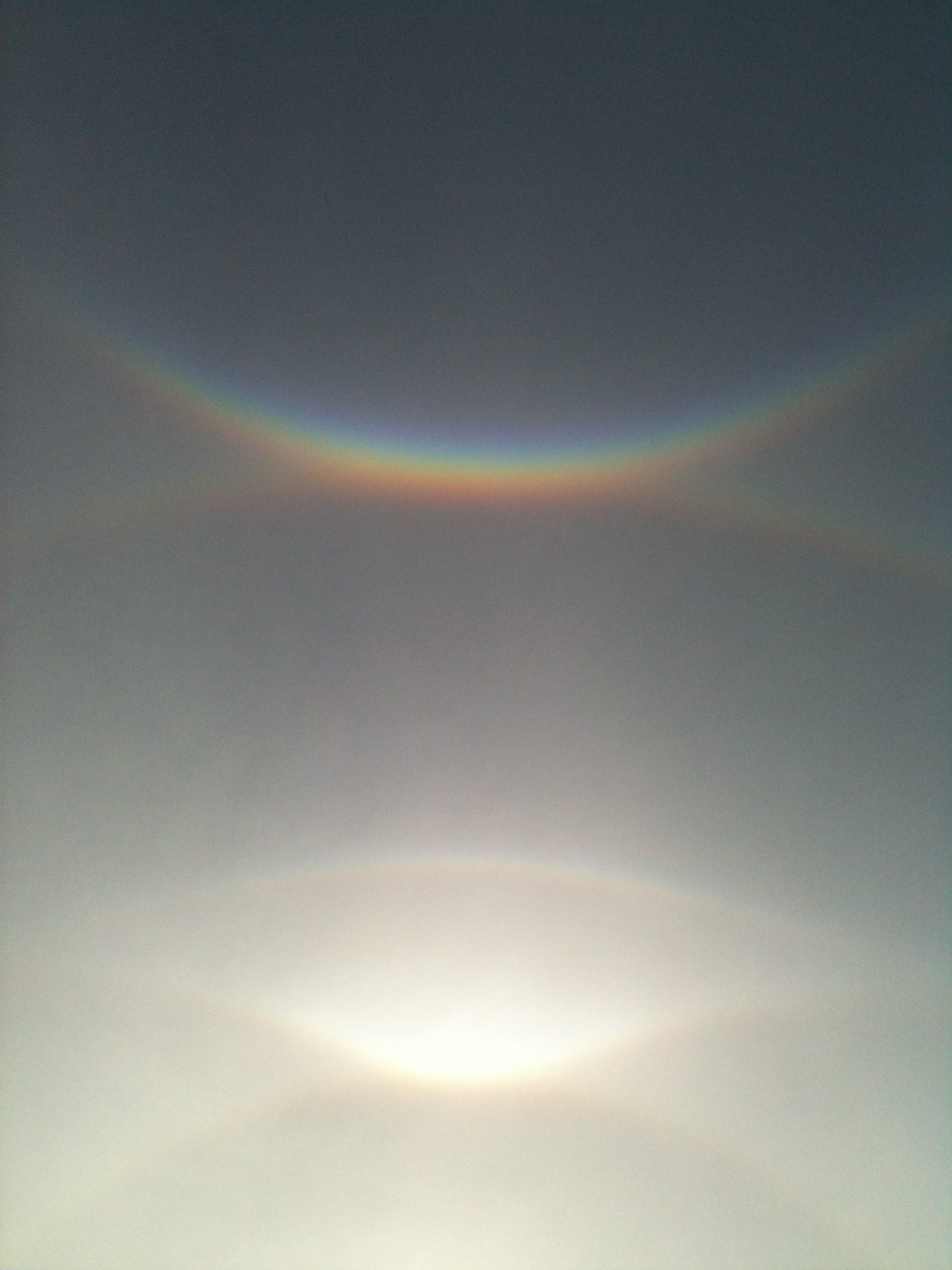 Circumzenithal arc, supralateral arc, Parry arc, upper tangent arc, and 22° halo in Salem, Massachusetts, Oct 27, 2012.